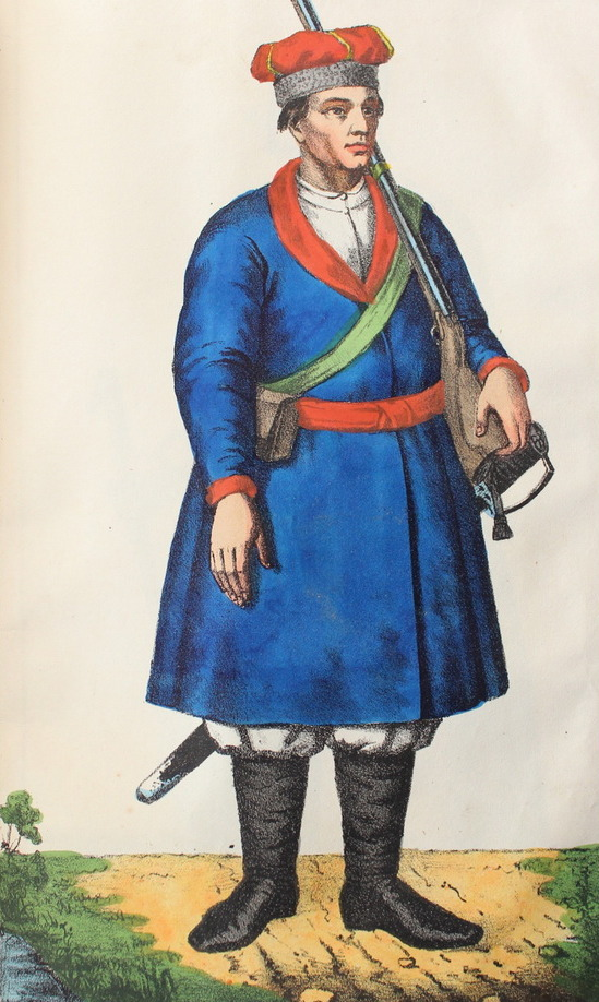 Ukrainian Cossack private.